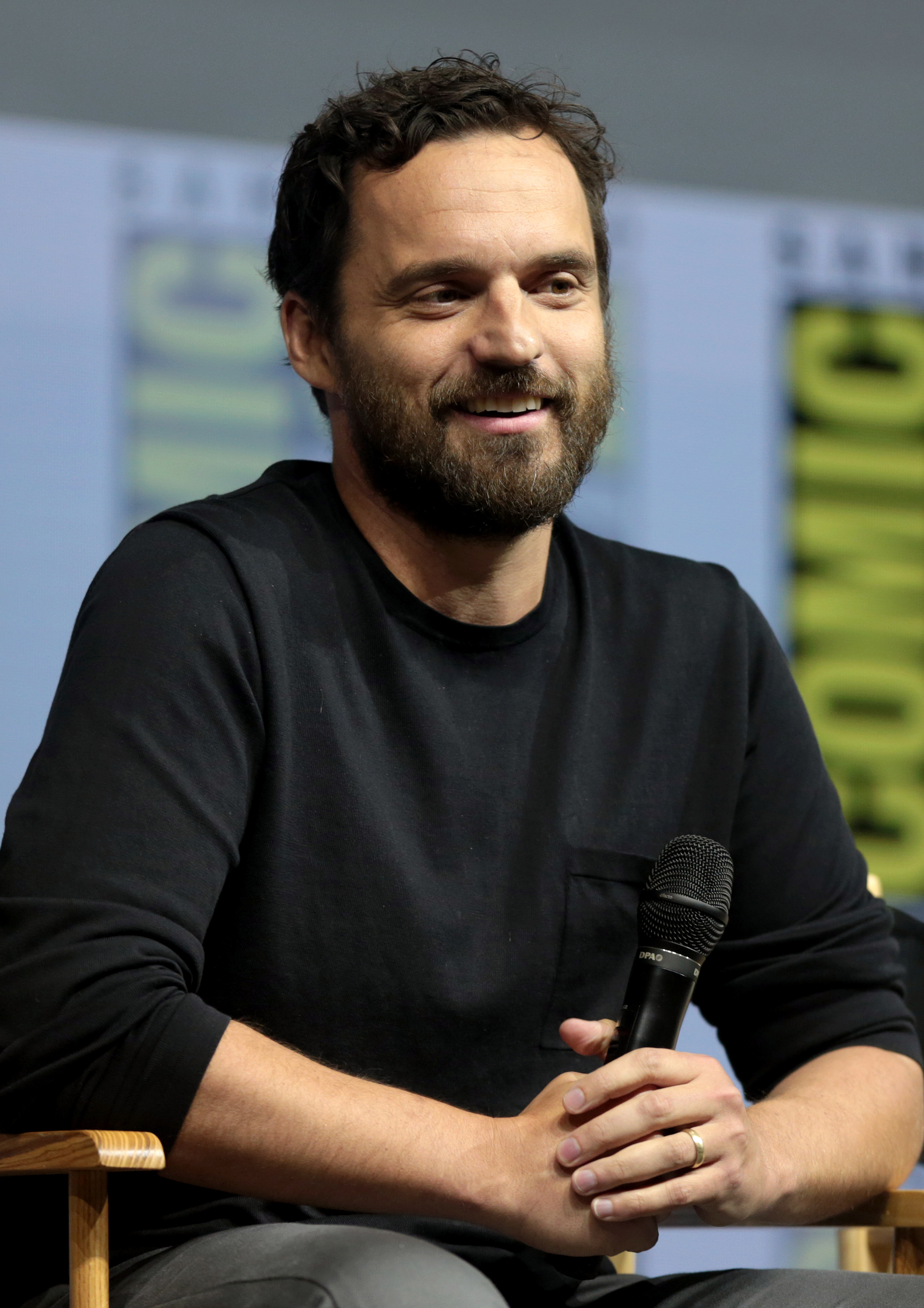 Jake Johnson speaking at the 2018 San Diego Comic-Con International in San Diego, California.